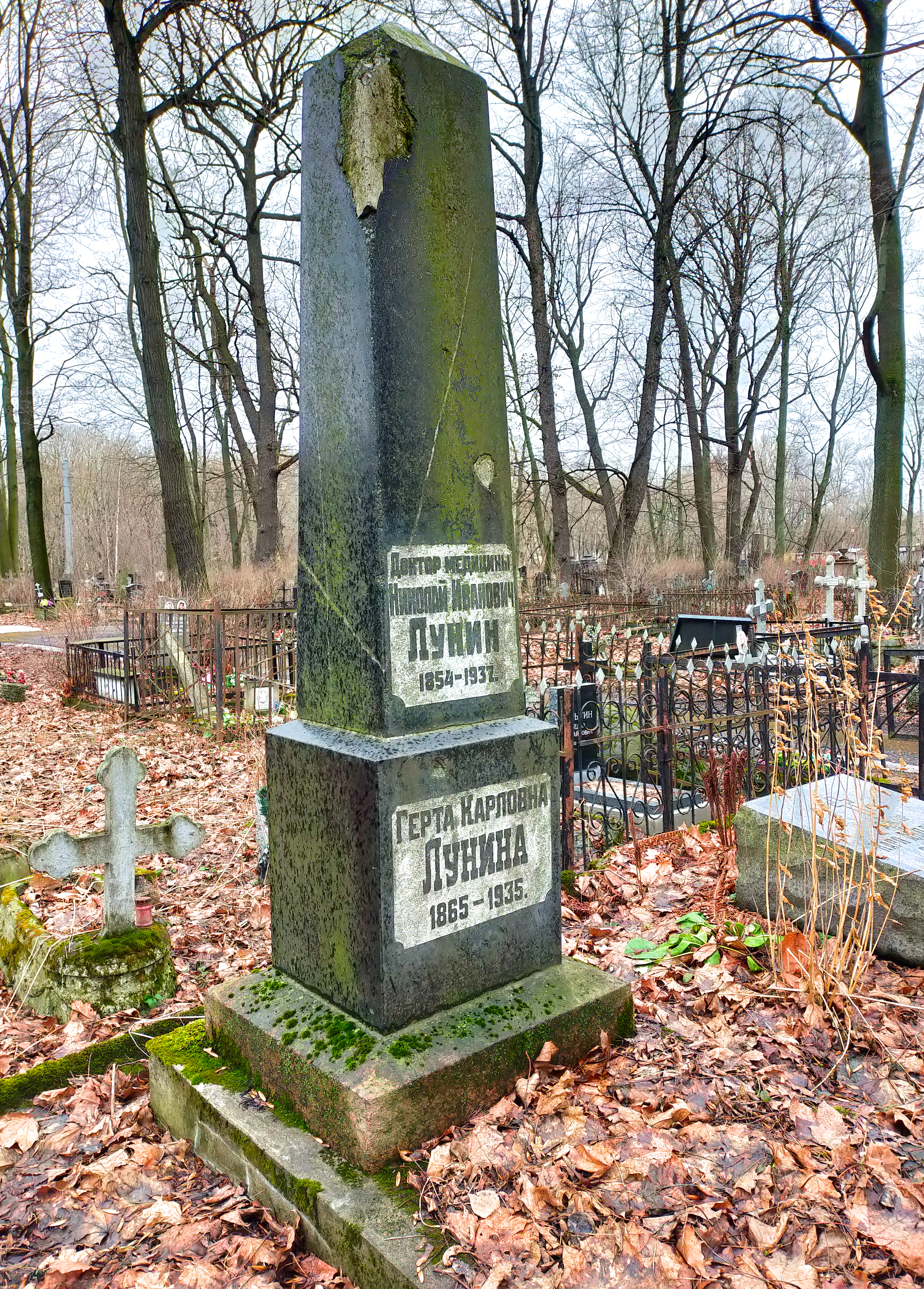 Lunin Nikolay Ivanovich MD